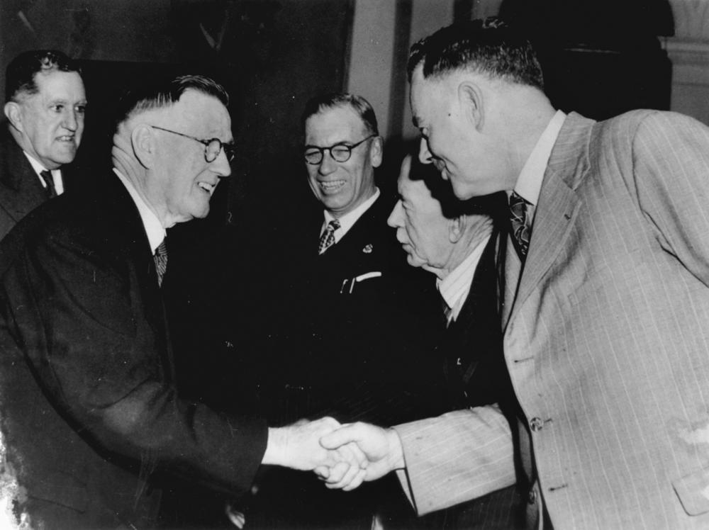 Frank Cooper on official duties, Brisbane. Left to right: Judge Macrossan, Frank Cooper, Ned Hanlon, David Gledson,--------. (Description supplied with photograph.).